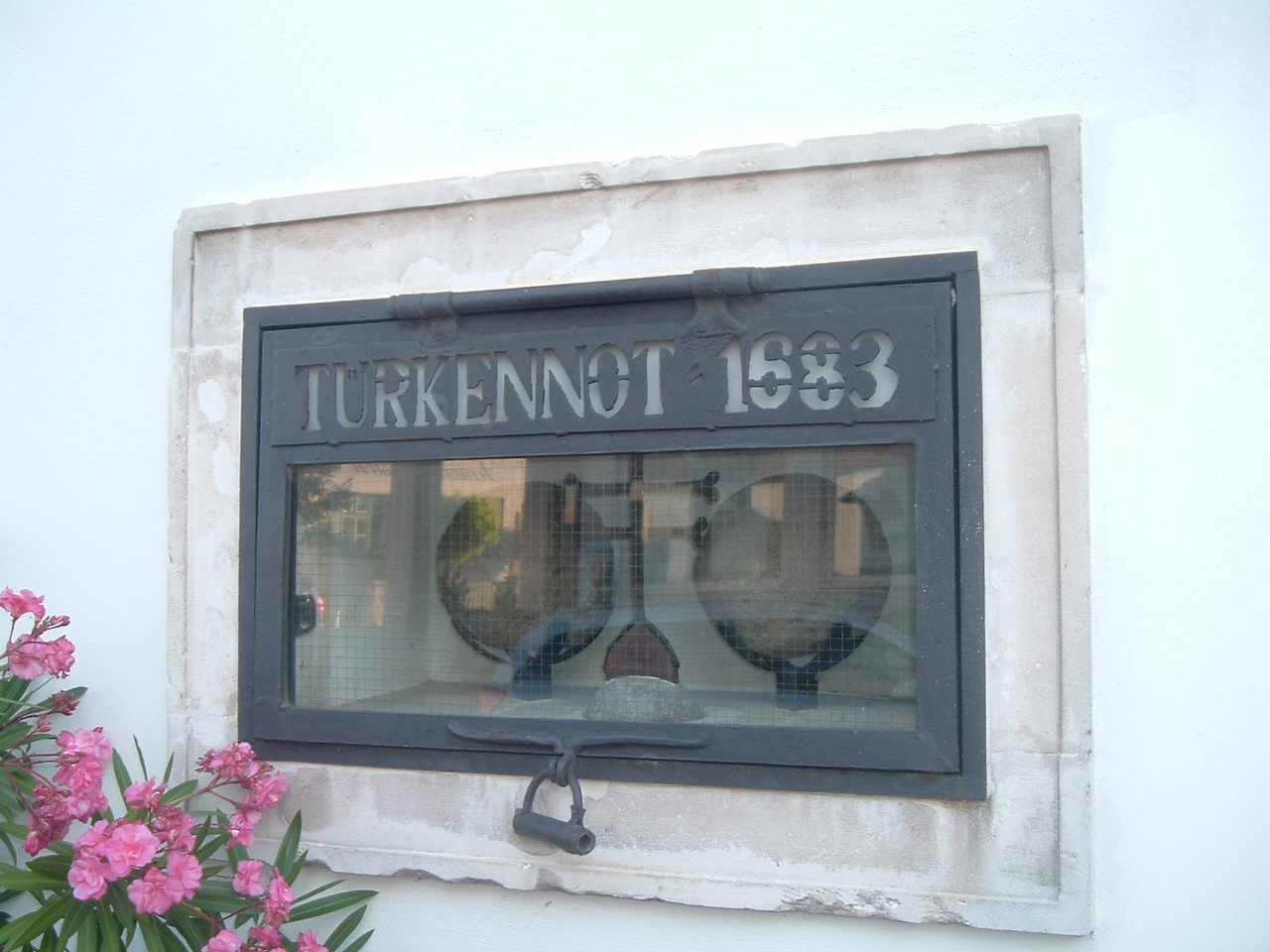 Turkennot 1683, Purbach am Neusiedler See, Austria